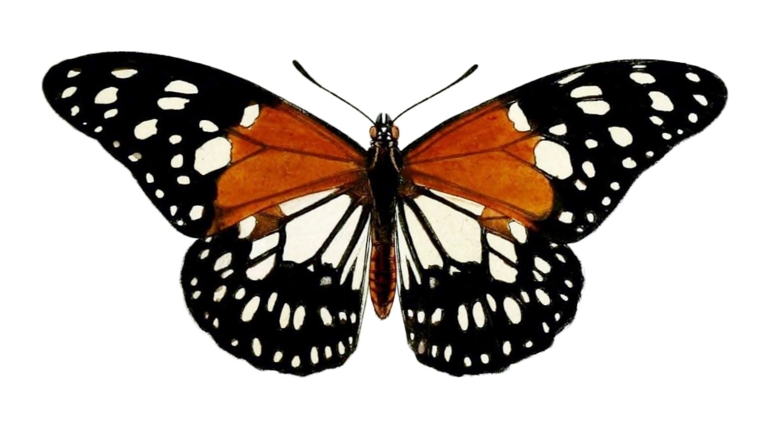 Godman, F.D. & Distant, W.L. (1880): Descriptions of five new species of Rhopalocera from East Africa. Proceedings of the Zoological Society of London 1880:182-185. Plate XIX (19) text figure 1 Danais formosa synonym for Tirumala formosa (Godman, 1880)